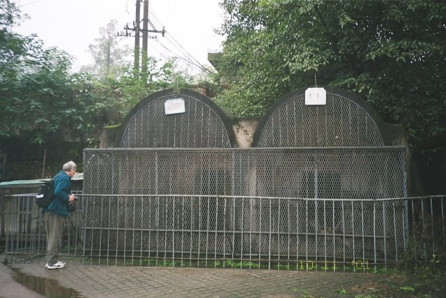 The macaque enclosure in the Zigong People's Park Zoo, Sichuan Province, China.